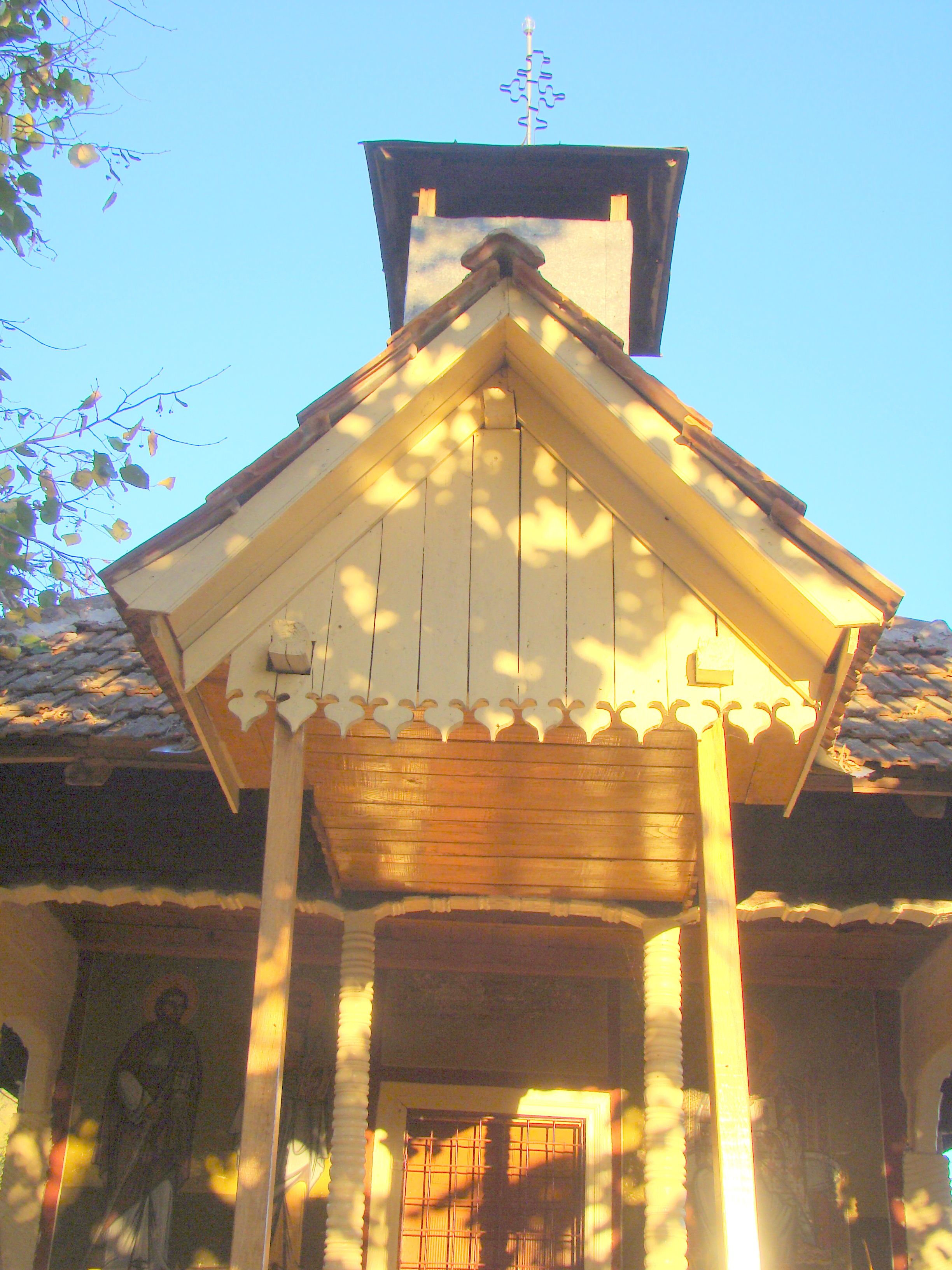 Wooden church in Slivilești, Gorj county, Romania